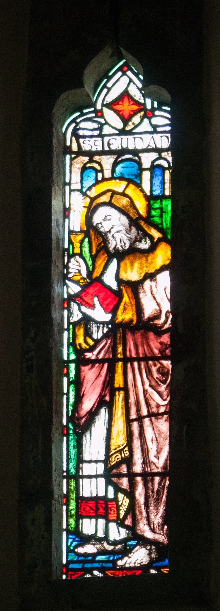 East-most stained glass window in the choir (W02), depicting Saint Eunan, created by Sarah Purser and/or Ethel Rind, An Tur Gloine, Dublin, in 1906. (See gloine.ie.)